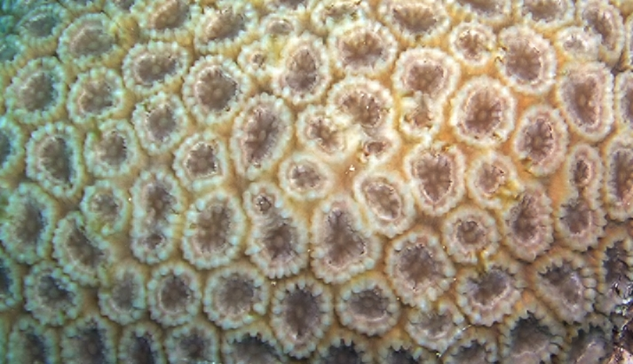 Dipsastraea speciosa (synonym: Favia speciosa) en Kingman Reef, islas de la Línea